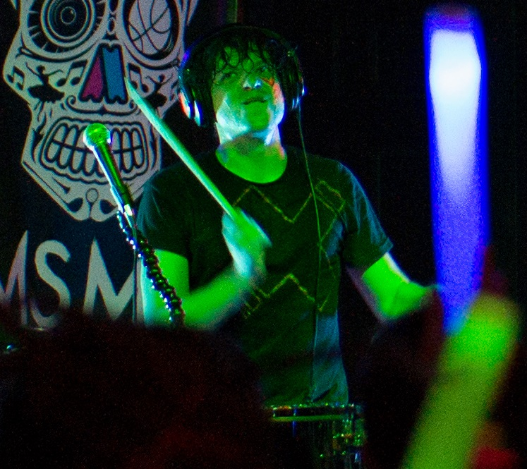 Robert DeLong at the Historic Scoot Inn Applauze Party SXSW in 2014